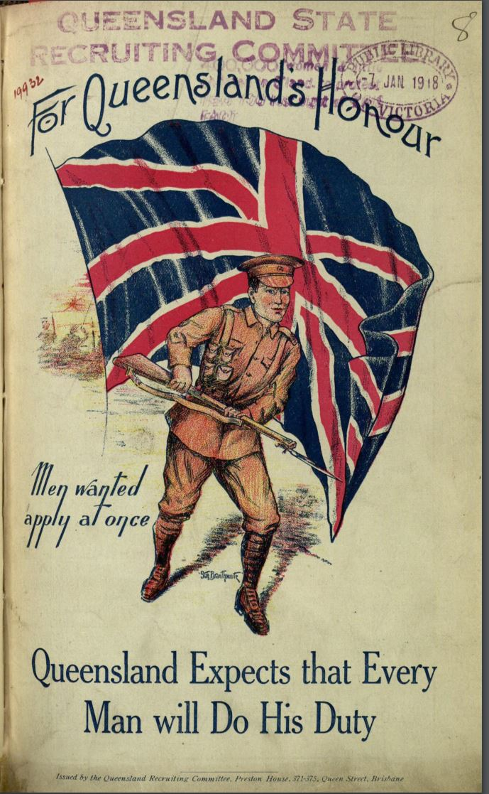 For Queensland's Honour: Queensland Expects that Every Man will Do His Duty: cover page of a recruiting booklet from World War I